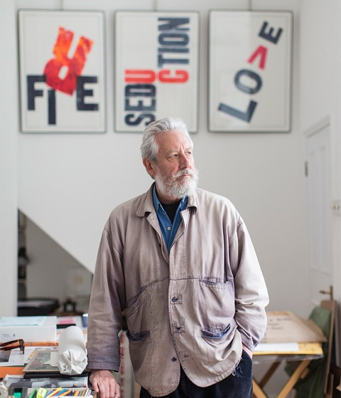 Portrait of Alan Kitching circa 2016